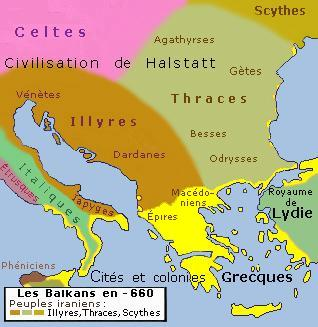 Historic map of Balkan peninsula 660 bc